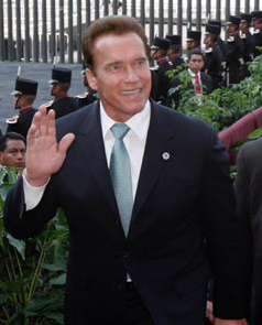 Governor Arnold Schwarzeneggar